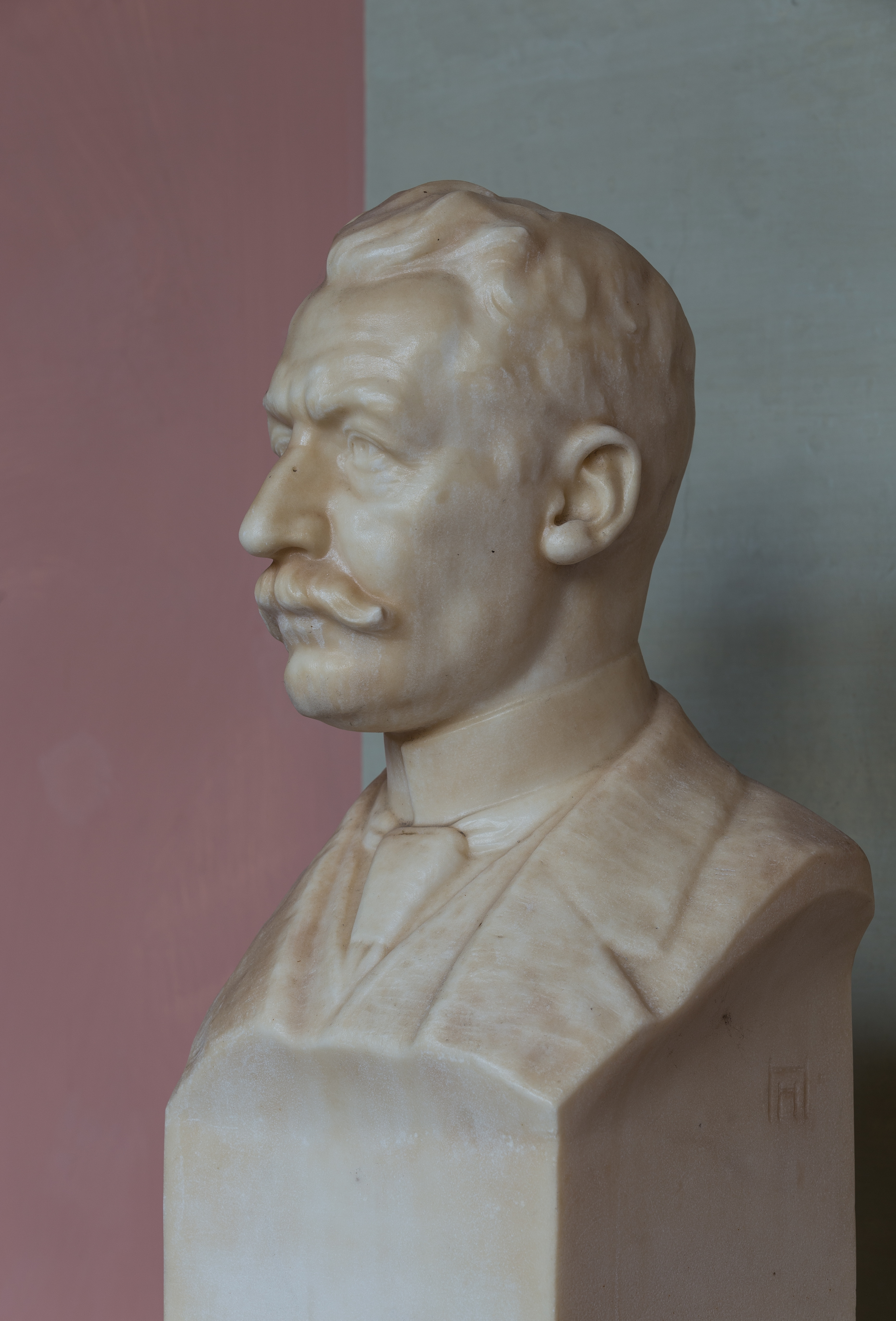 Franz Klein (1854-1926), bust (marble) in the Arkadenhof of the University of Vienna, (Maisel# 68). Artist: Hermann Haller (1880-1950), unveiled 1937